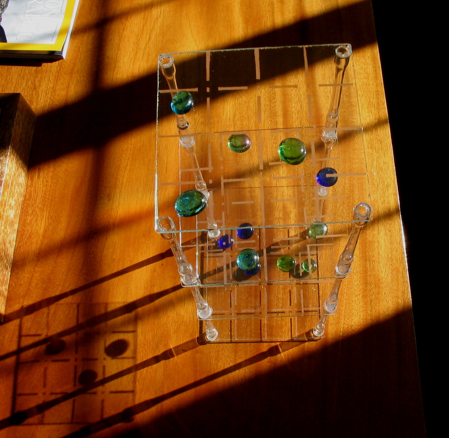 3D Tic Tac Toe